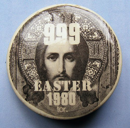 999-band -button-[photo by paul b. toman]